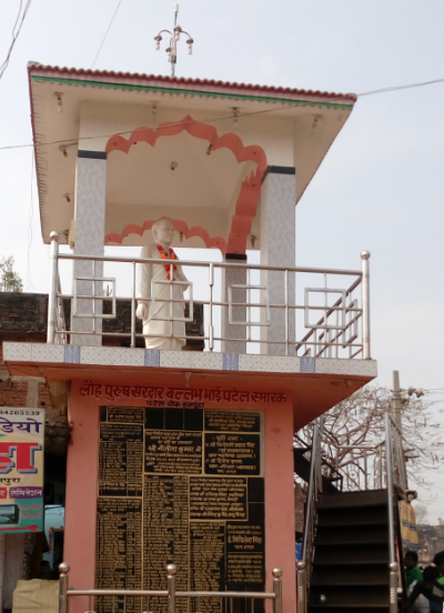 Sardar Patel Memorial